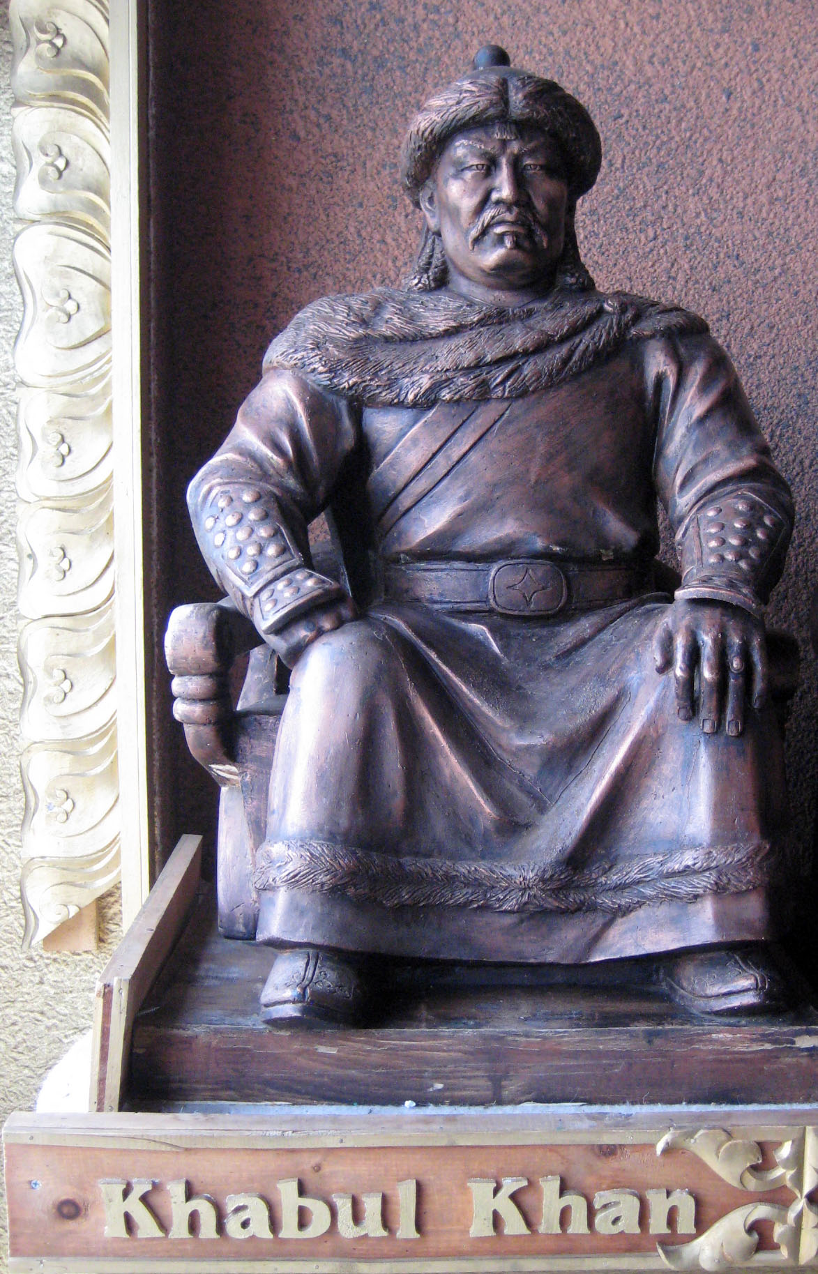 Khabul's statue in Mongol palace, Gachuurt, Mongolia